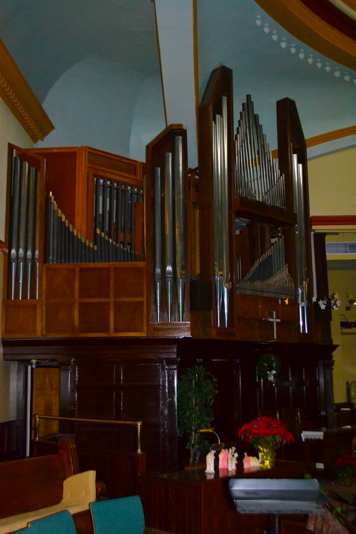 The original organ was 2 manual, 18 rank installed by Estey at the First Christian Church in 1913 (opus 1111). Pictured is an expanded 3, 35 instrument based on the original. Estey also installed an 8 rank organ in 1913 for the Savoy Theater in Eugene (opus 1106). That instrument was lost to Seattle in the 1930s.